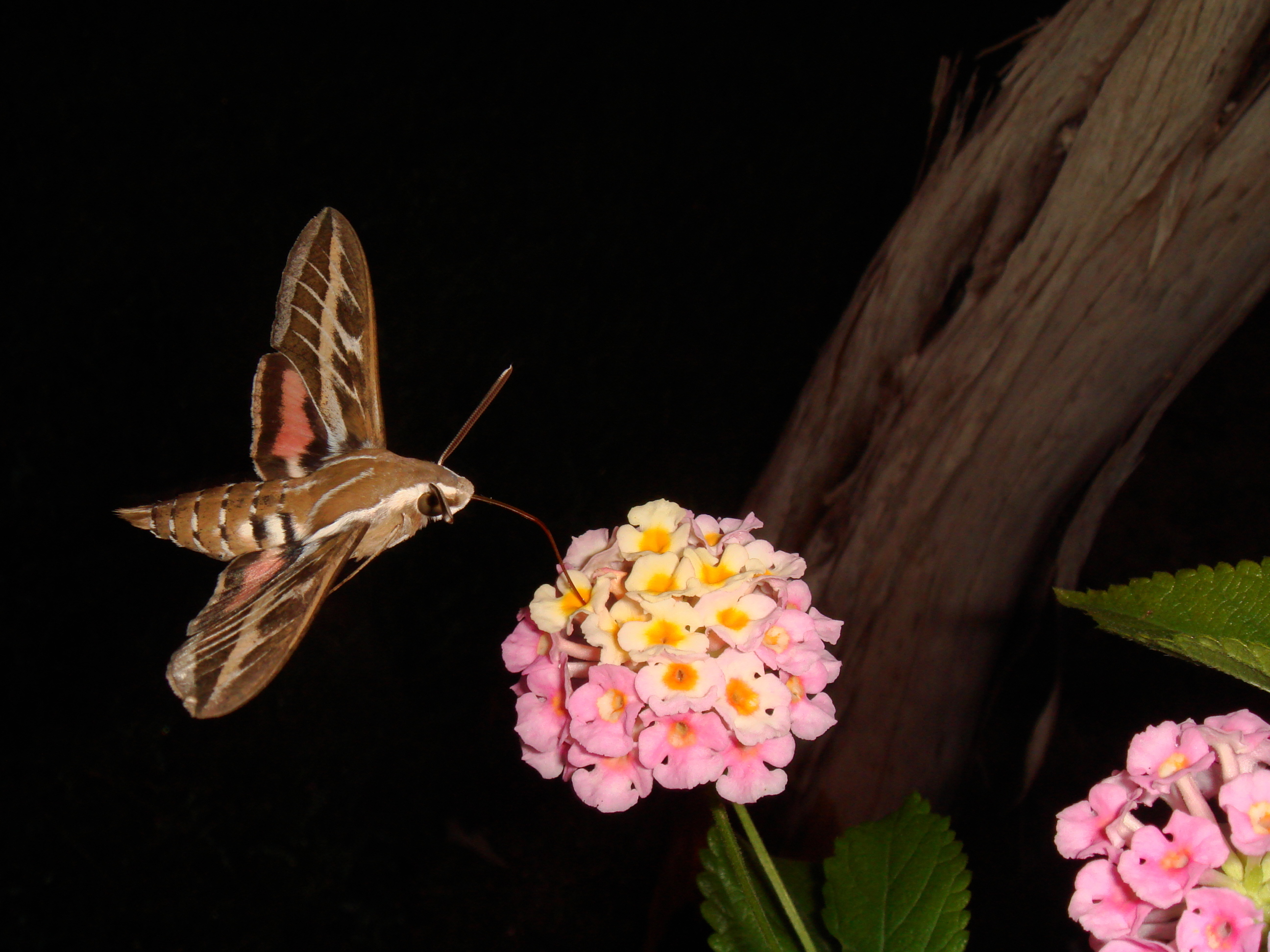 A moth feeding on a lantana(?) flower, in Menorca.